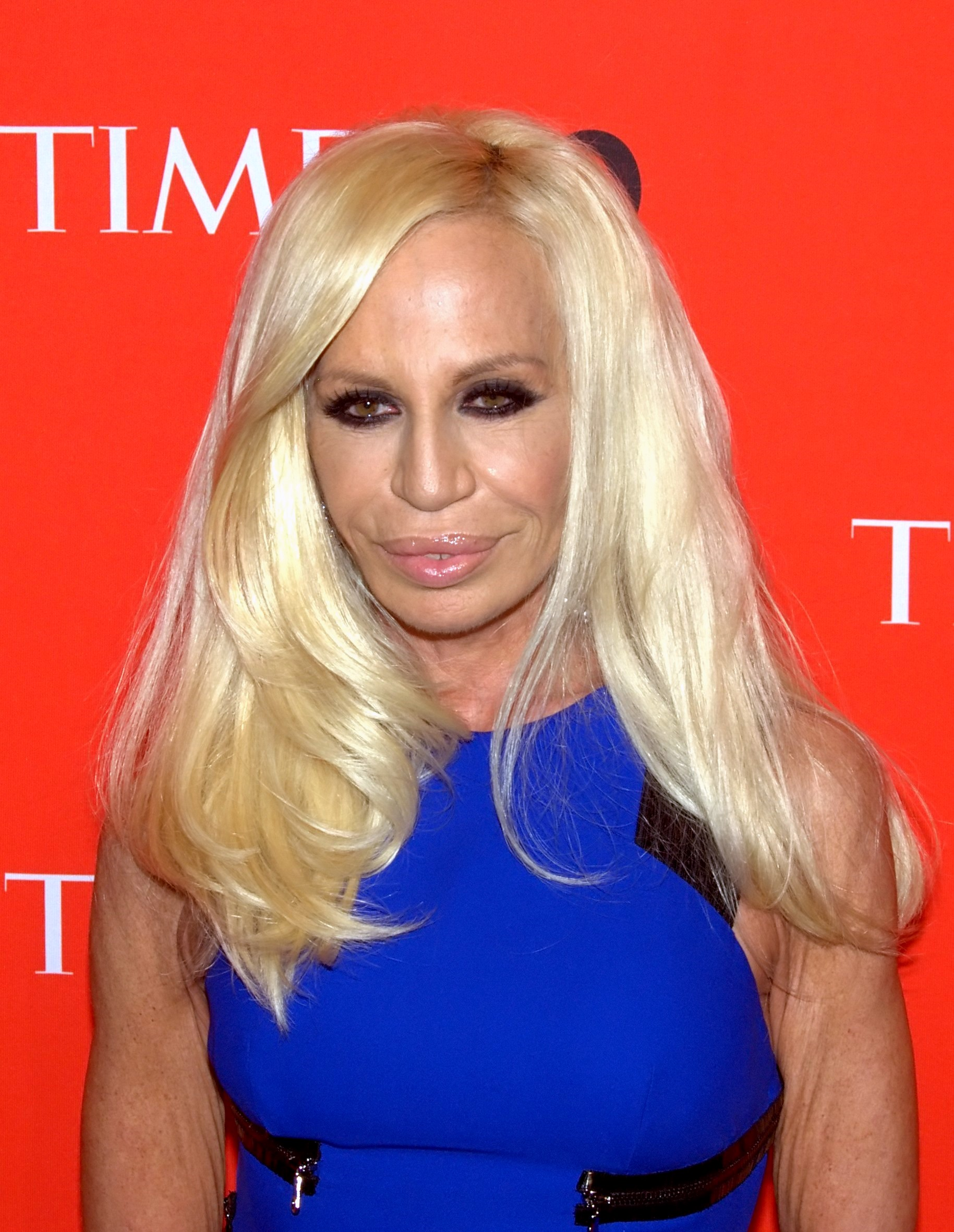 Donatella Versace at the 2010 Time 100.